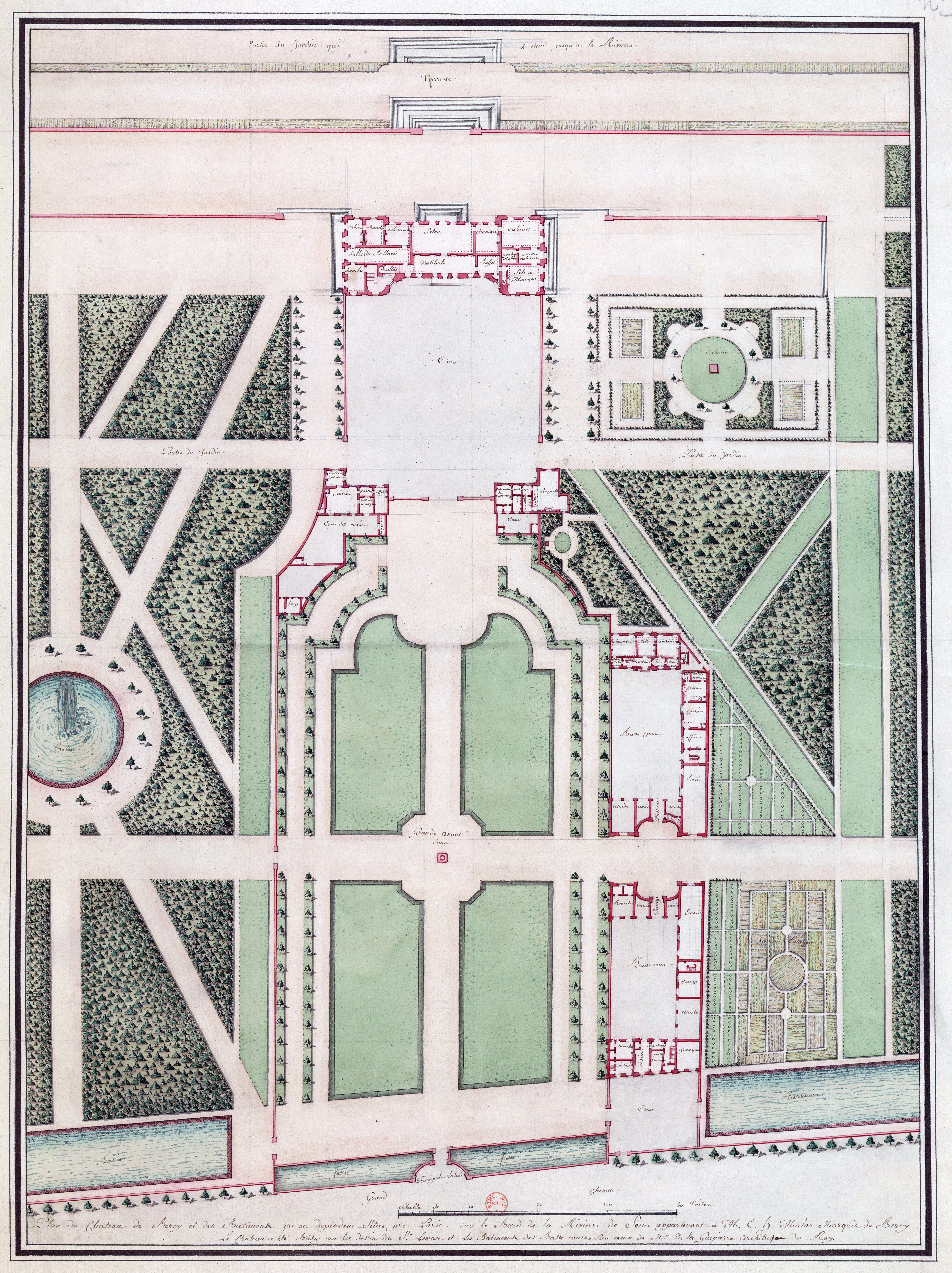 General plan of the Château de Bercy (near Paris; designed by François Le Vau; begun 1658), showing the entrance court and the forecourt with service courts and the stables (designed by Jacques de La Guépière; constructed 1713–1714) on the right. The plan is oriented with northeast at the bottom.